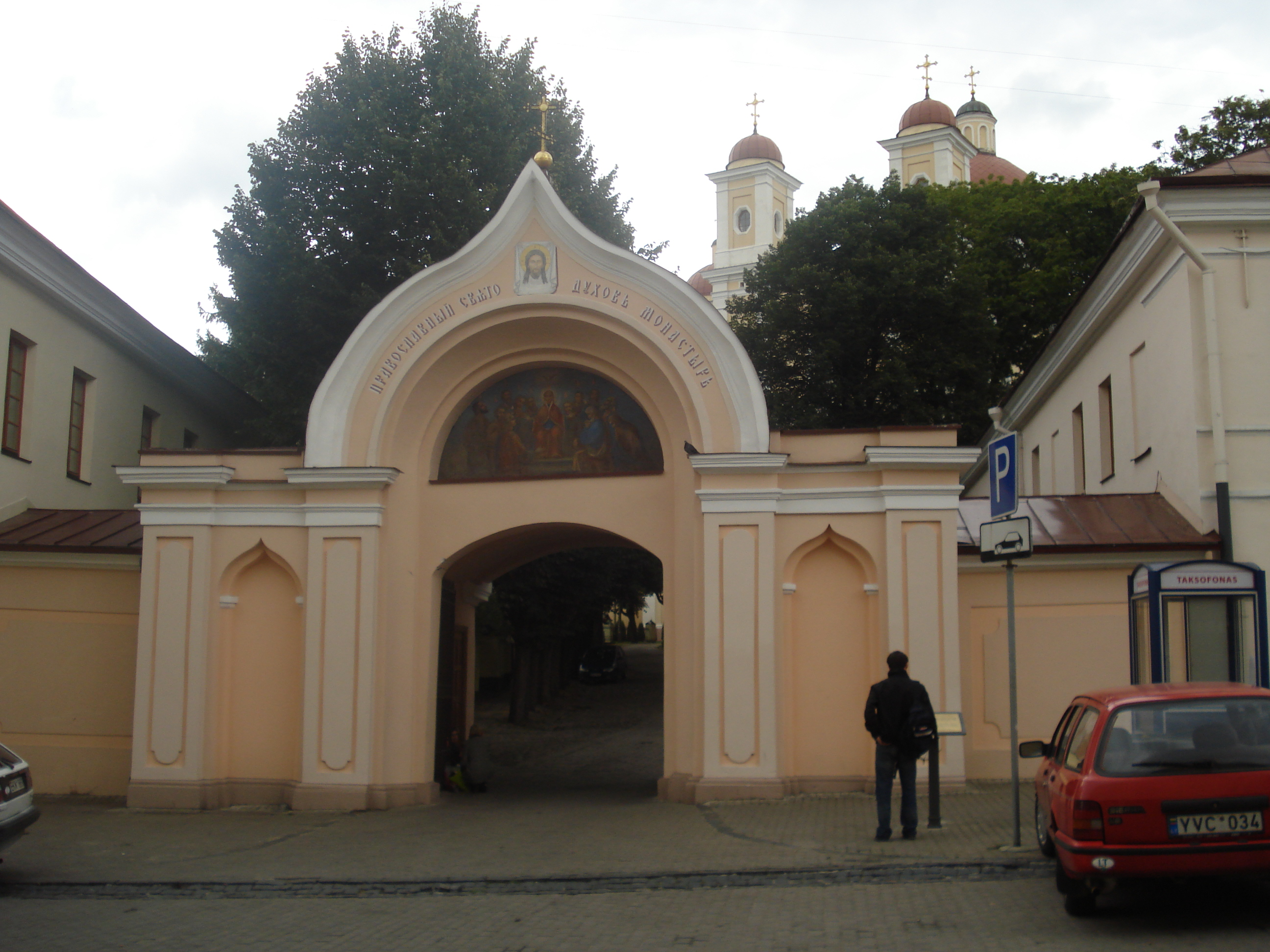 Gate of the Orthodox Church and monastery of the Holy Spirit in Vilnius (Aušros vartų g. 10)